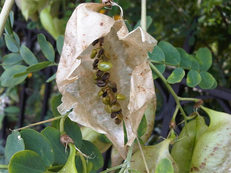 Bladder senna (Colutea arborescens) fruit with seeds in Putney Heath Common, England.